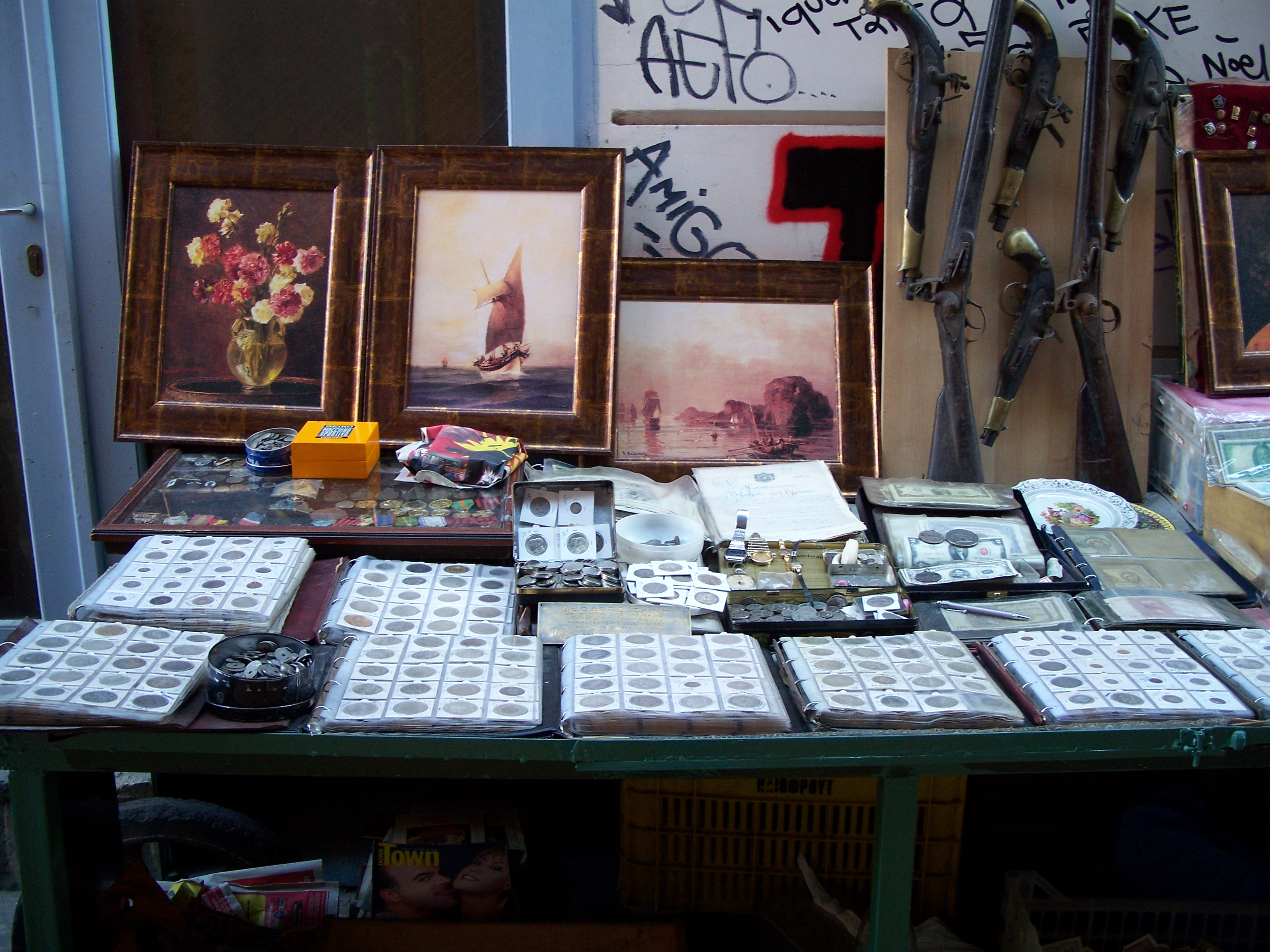 A typical street vendor of antiquities and oddities at Monastiraki flea market, Athens, Greece, where you can find everything from coins to guns to memorial plaques:)